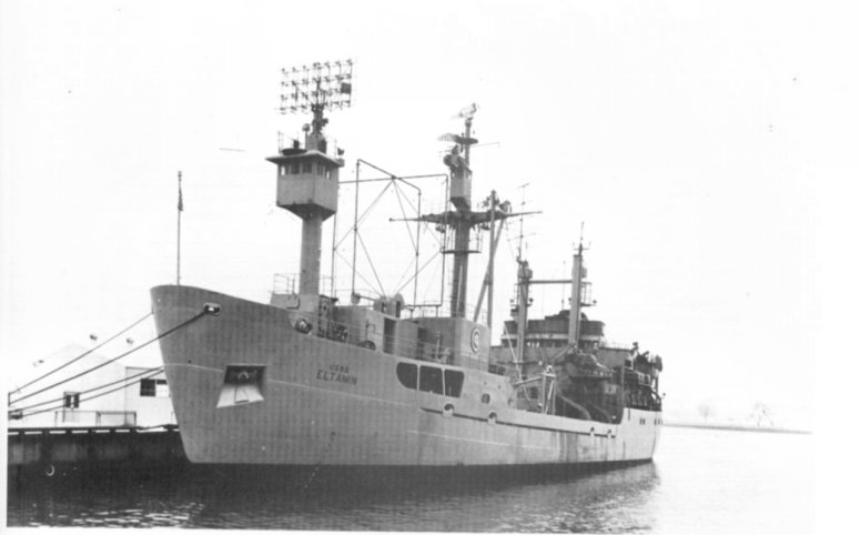 Eltanin (T-AGOR-8), pierside, date and place unknown. US Navy photo from DANFS.